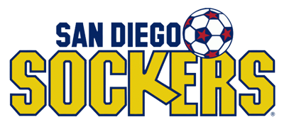 San Diego Sockers logo, used from 1978 to 1984.